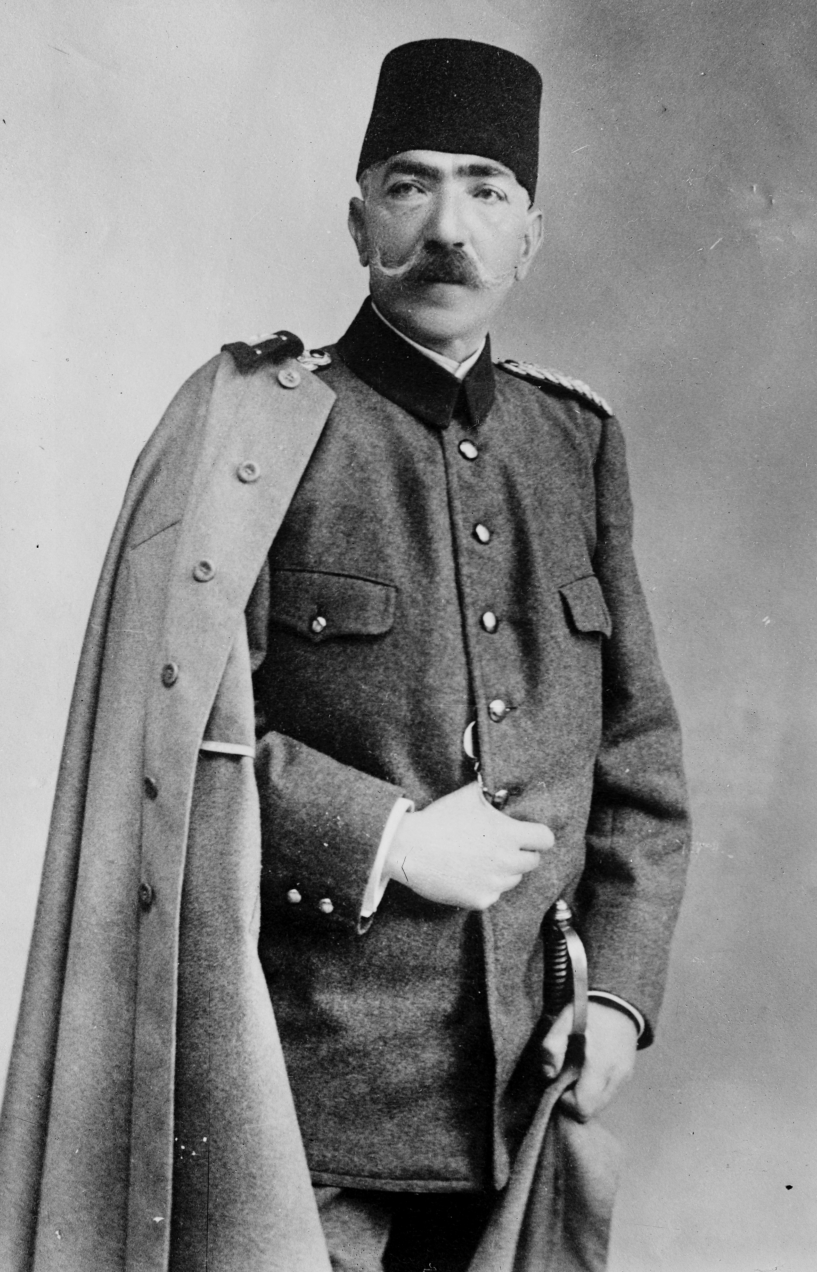 Hussein Husnu Pasha (1856 - 1926)